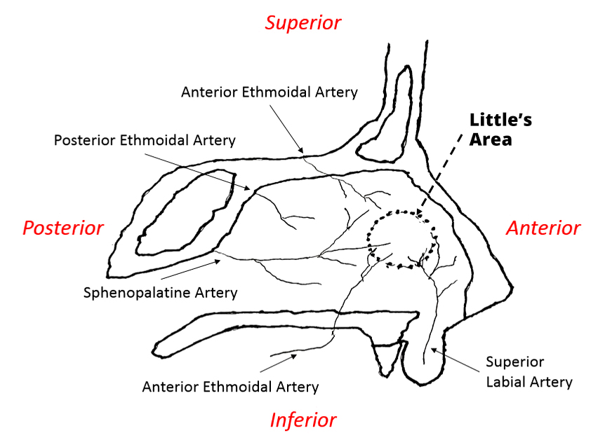 Drawing demonstrating the arteries that supply Little's plexus (shown by dotted line)